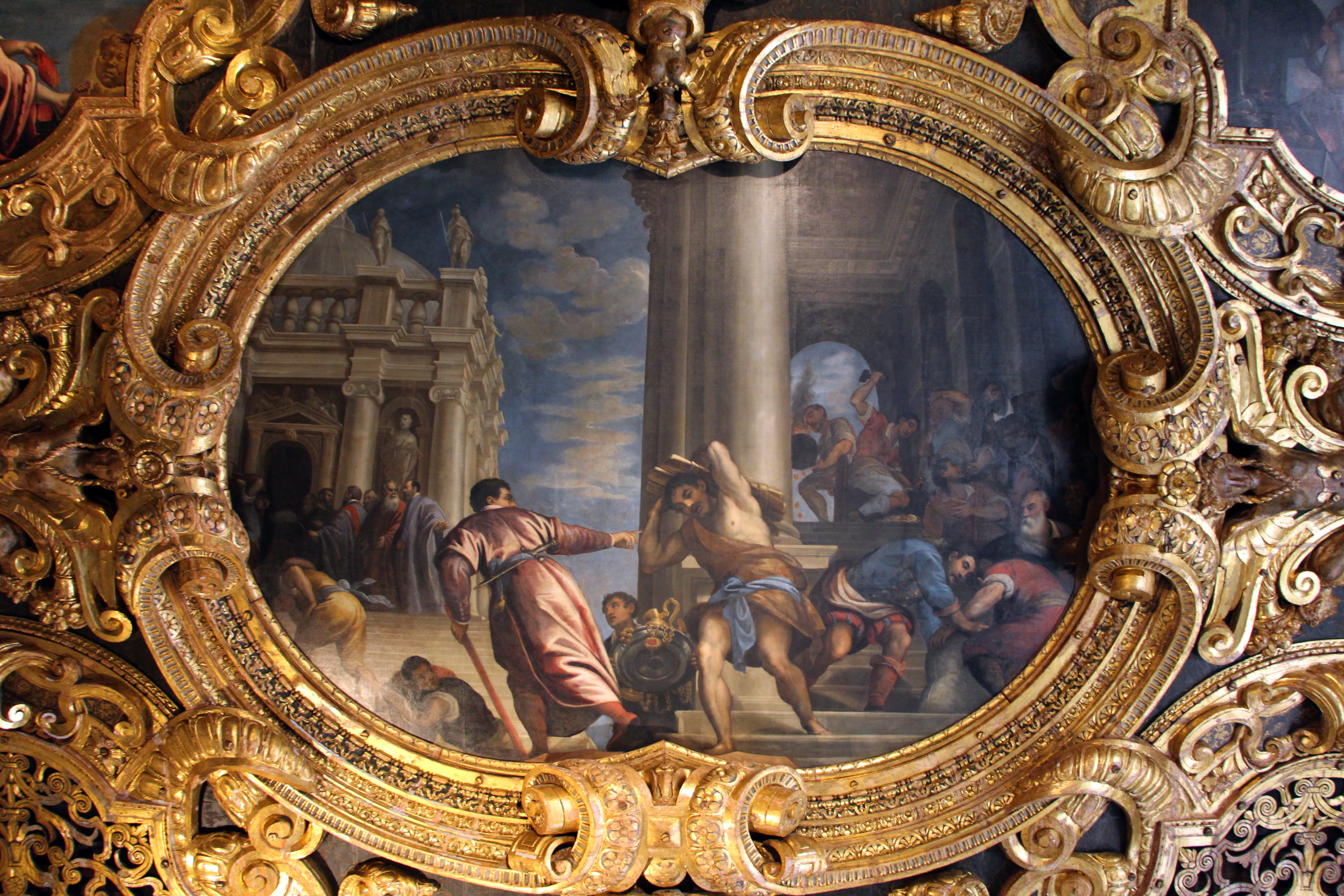 Interior of the Doge's Palace (Venice) - Sala del Senato